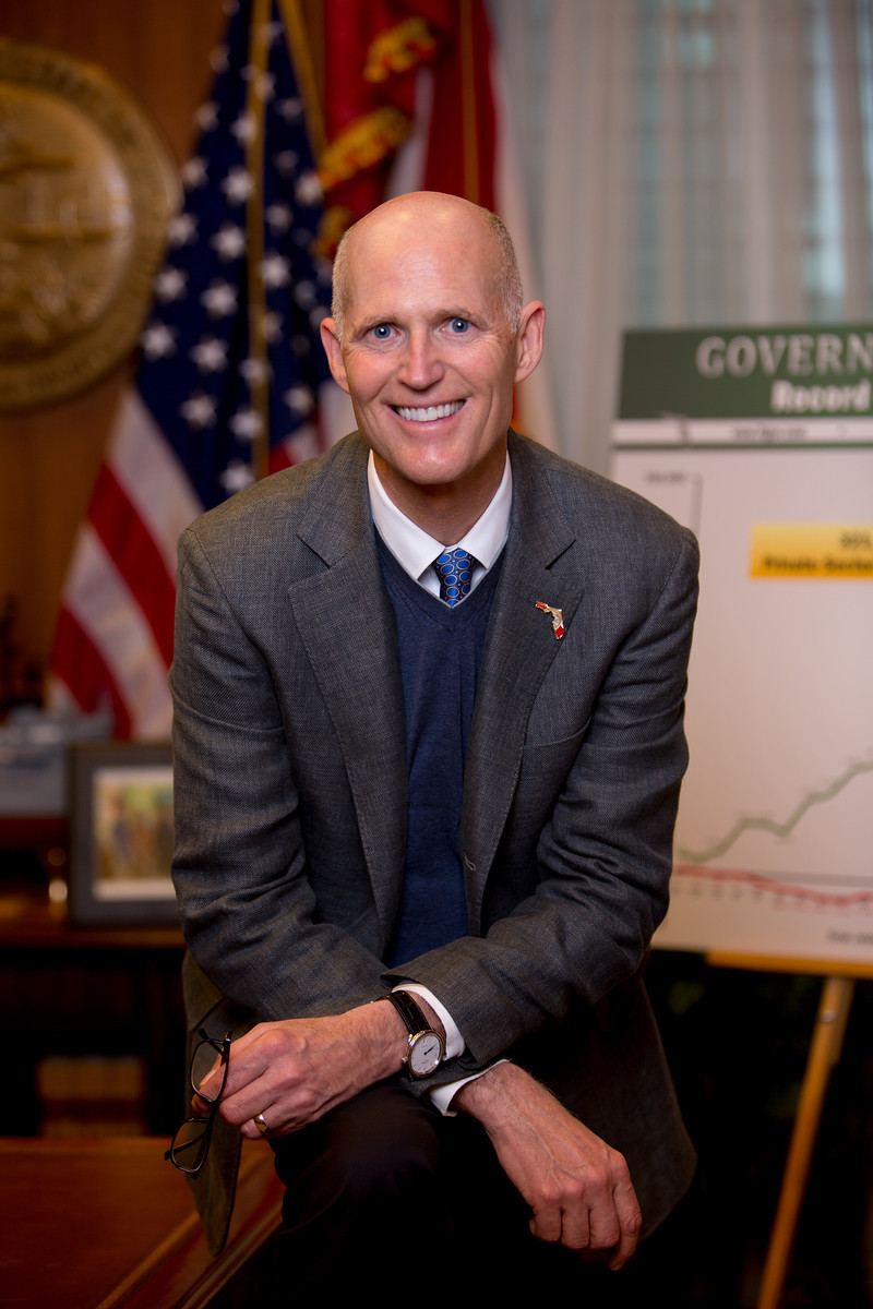 Official photo of Florida Governor Rick Scott